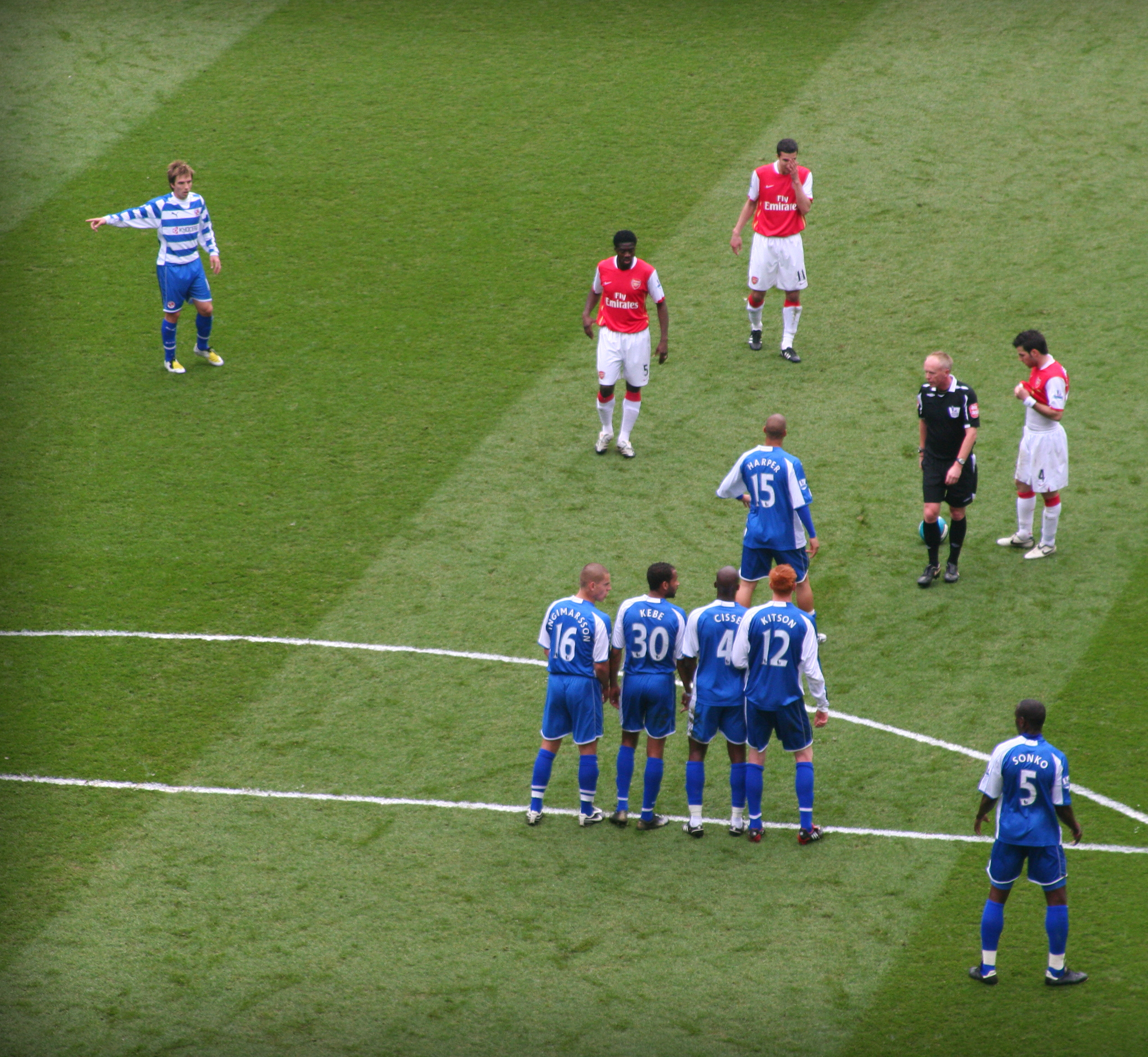 Arsenal vs. Reading at The Emirates Stadium - Saturday 19th April, 2008